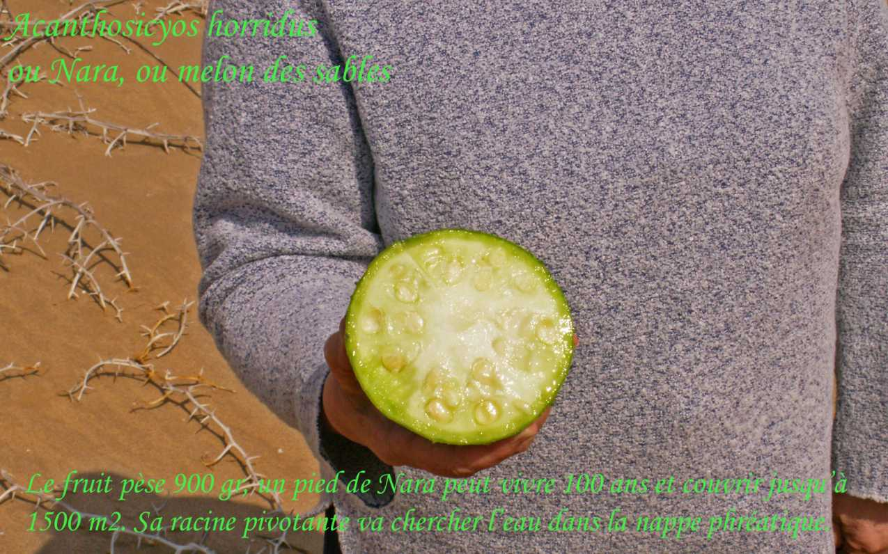 Un fruit coupé de Nara (Acanthosicyos horridus)